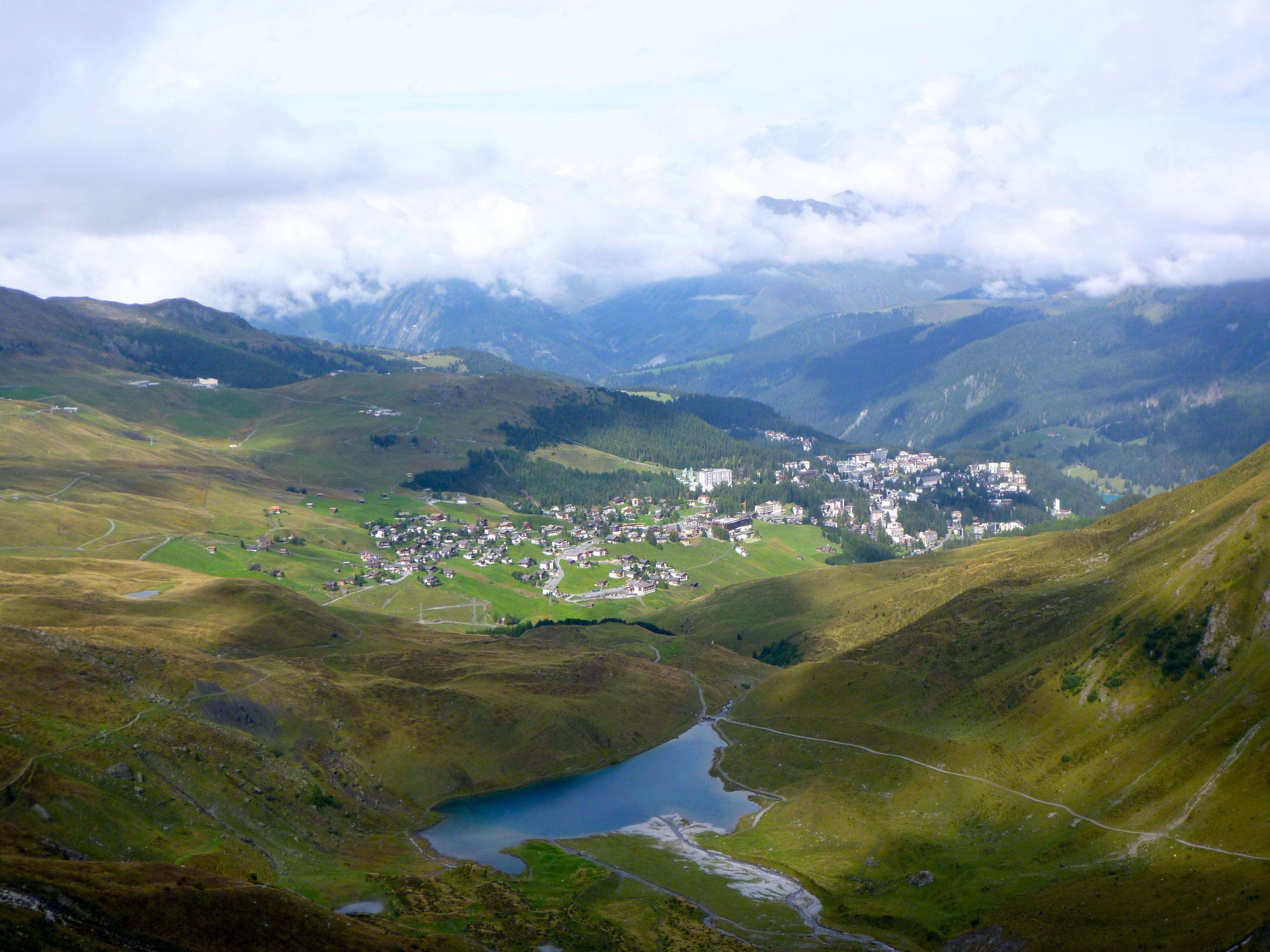 Schwellisee with Plessur delta, Arosa, Switzerland